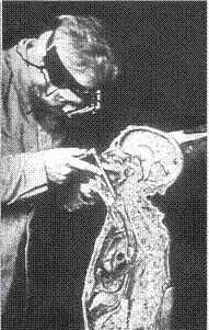 Gustav Killian demonstrates the technique of bronchoscopy on an anatomical preparation